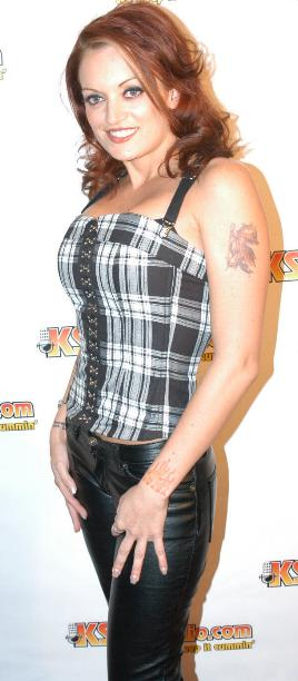 Monica Mayhem at Listeners Choice Awards, December 2 2006